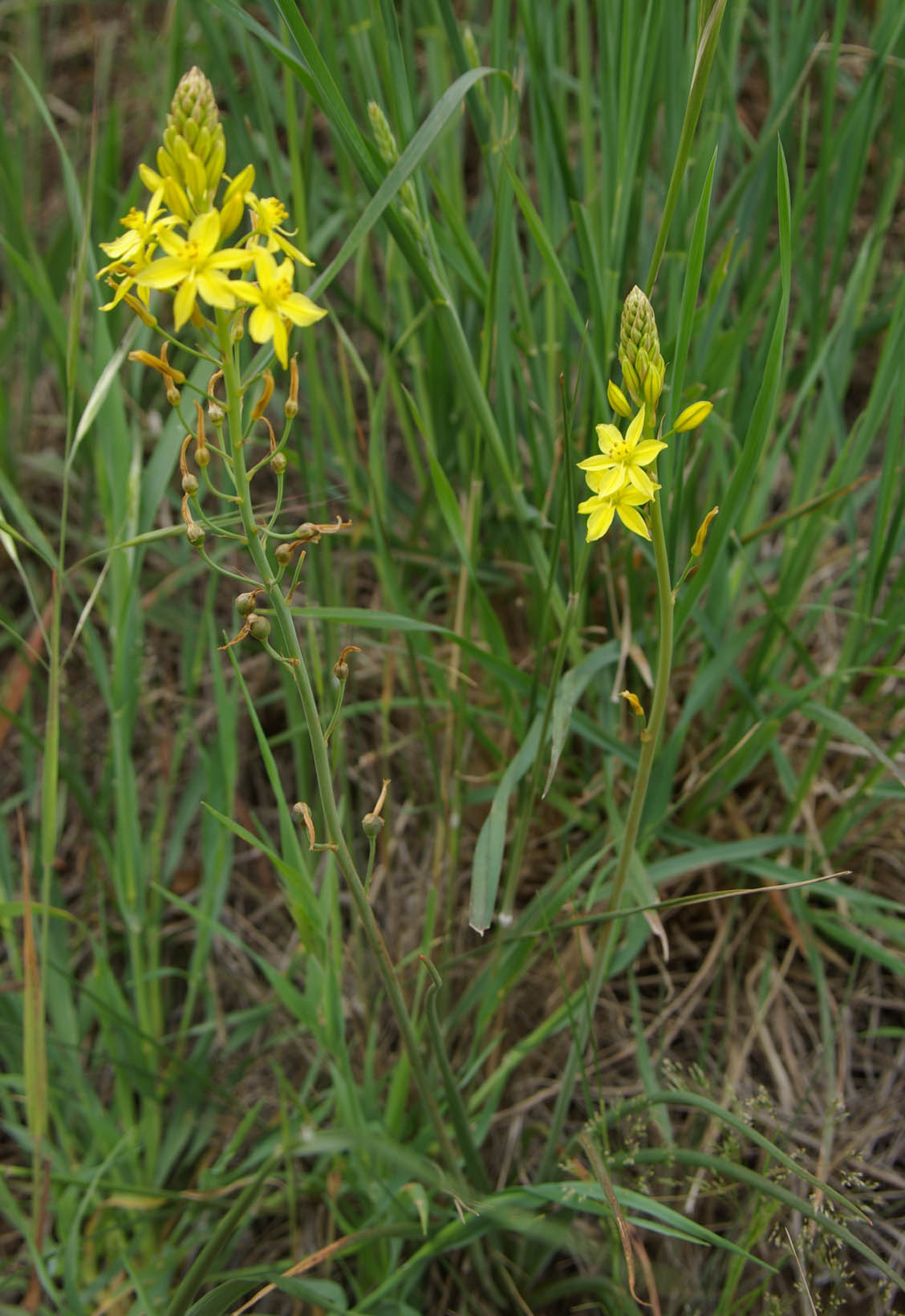 Bulbine bulbosa plants in meadowland north of Hobart